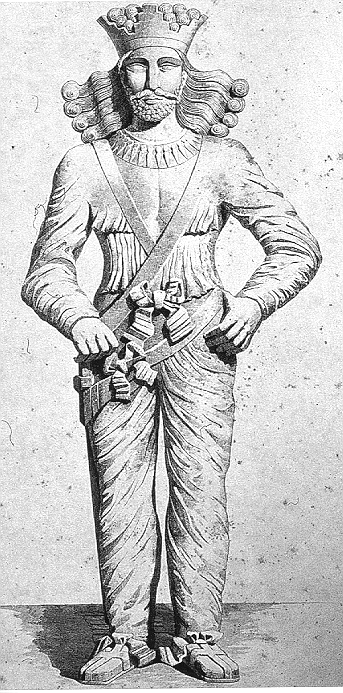 Drawing after engraving of The Seven Great Monarchies Of The Ancient Eastern World, Vol 3. (of 7). Shapour cave (Persian: غار شاپور) is located in the Zagros Mountains, in southern Iran, about 6 km from the ancient city of Bishapur. This cave is near Kazerun in Chogan valley, which was the site of polo/chogan in the Sasanian period. In the cave, on the fourth of five terraces, stands the colossal statue of Shapur I, the second ruler of the Sasanid Empire. The statue was carved from onestalagmite. The height of statue is 7 m. high and its shoulders are 2 m. wide, and its hands are 3 m. long. About 1400 years ago, after the invasion of Iran by Arabs and collapse of the Sasanid dynasty, this grand statue was pulled down and a part of one of its legs was broken. About 70 years ago, again, parts of his arms were also broken. The statue had been lying on the ground for about 14 centuries until 1957 when upon orders of Shah Mohammad Reza Pahlavi a group of his military men to raise it again on its feet and fix his foot with iron and cement. The project of raising the statue, building the roads from Bishapur to the area and paths in the mountain, stairs and iron fences on the route to the cave took six months in 1957. The length of cave entrance is about 16 m., with a height of less than 8 m.Behind the statue, in the depth of the cave, are three ancient water-basins. At both sides of the statue, the rock-walls of the cave were prepared for reliefs by leveling, but the reliefs were never